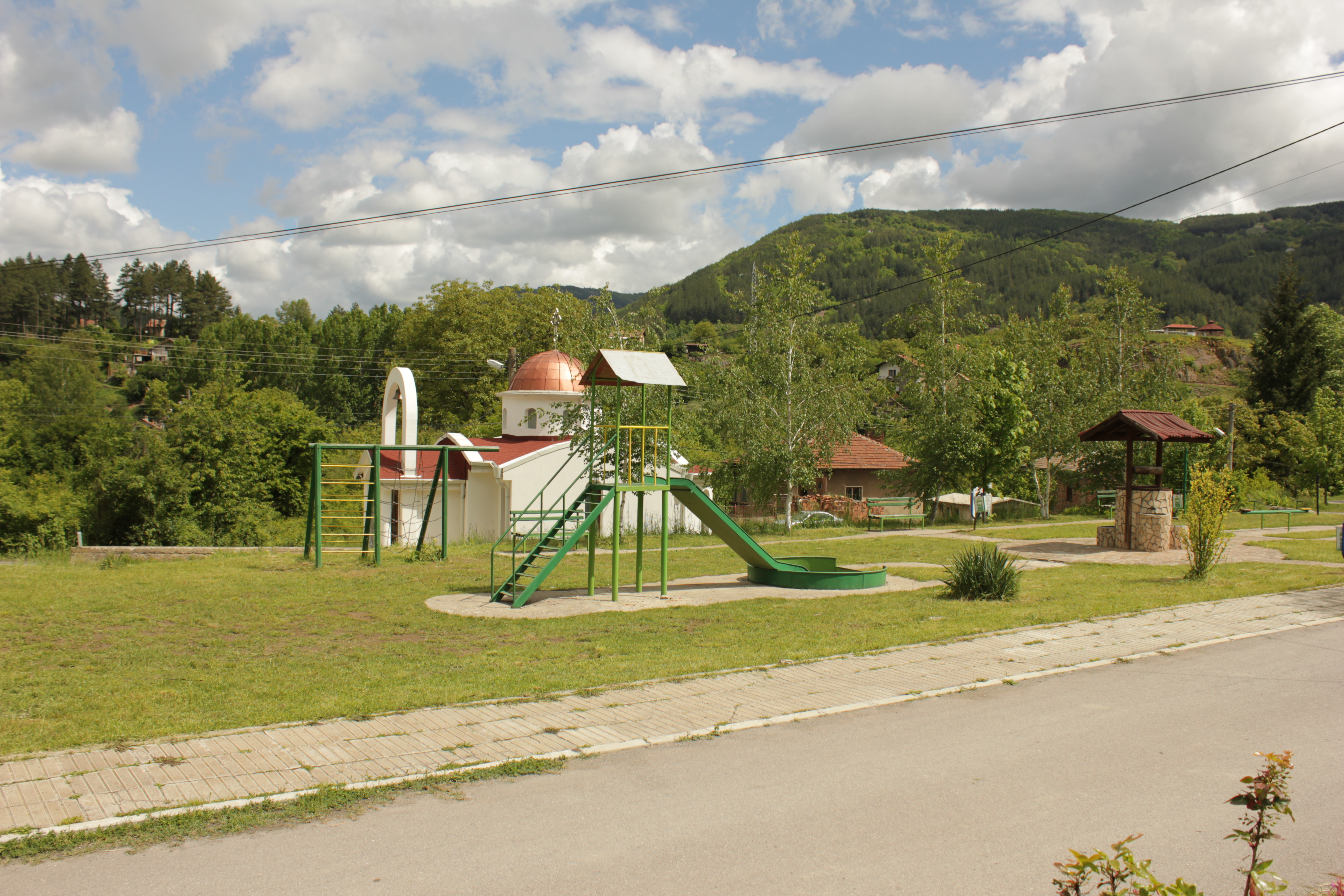 Saint Petka church in Lukovo, Bulgaria